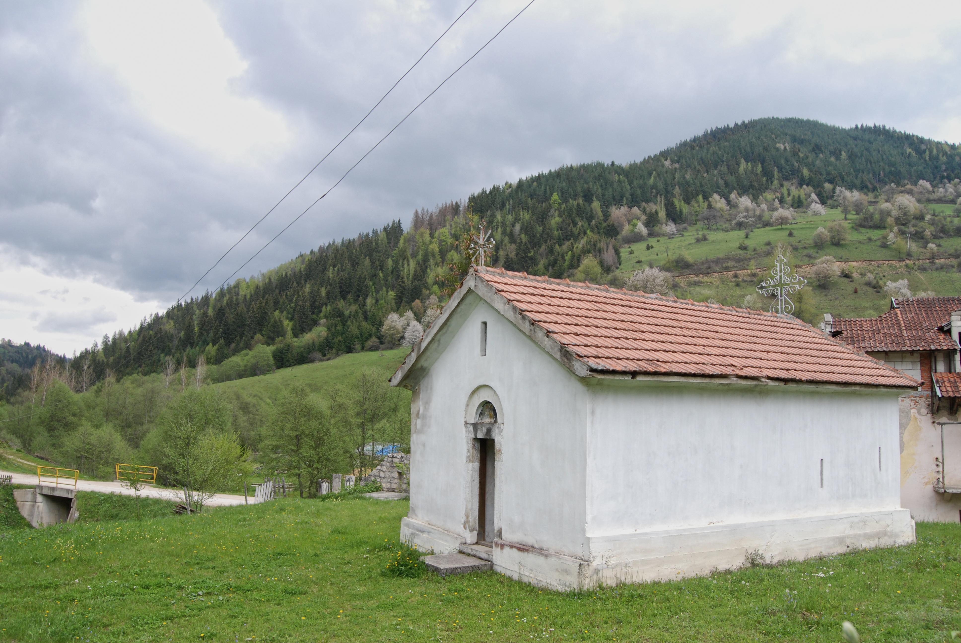 Church of Saints Cosmas and Damian, Ivanjica, Serbia.Српски (ћирилица): Црква Светог Кузмана и Дамјана, Ивањица, Србија.